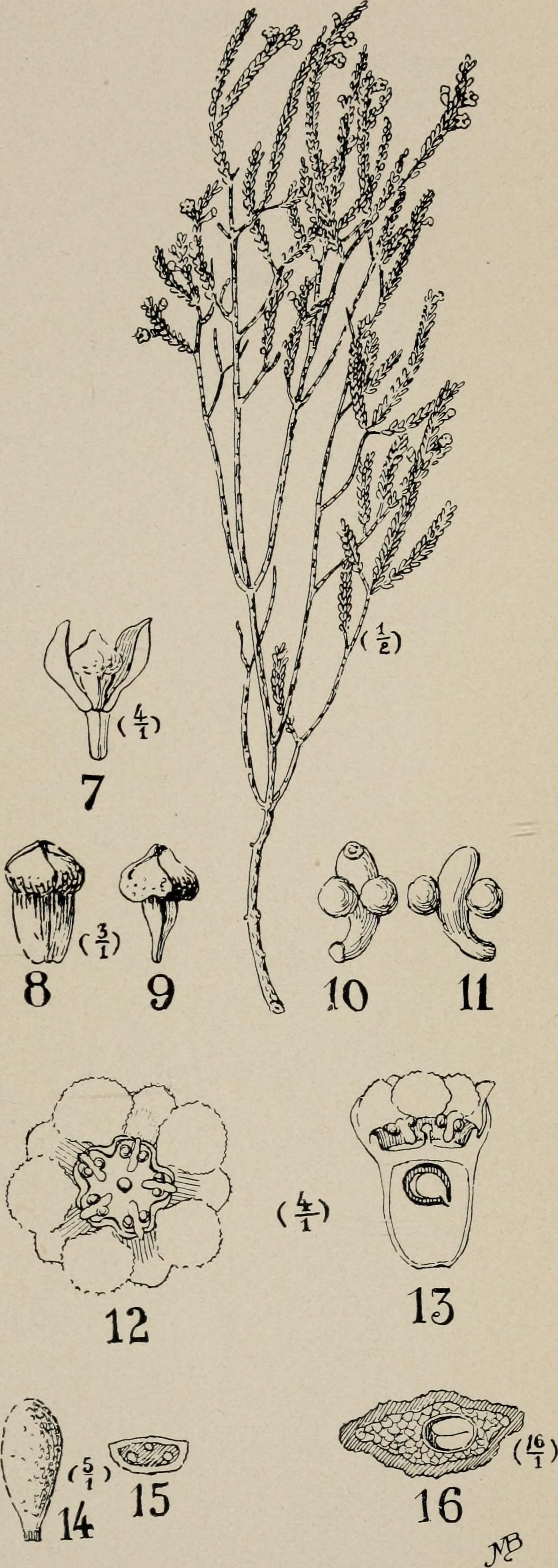 Title: Transactions and proceedings and report of the Philosophical Society of Adelaide, South Australia Year: 1878 (1870s) Authors: Philosophical Society of Adelaide, South Australia Subjects: Philosophical Society of Adelaide, South Australia Science Publisher: Adelaide : The Society Text Appearing Before Image: Hibbertiacrispula sp,n. Vol. XLI., Plate. XIX. Text Appearing After Image: ThryptomeneWhiteae sp.n. HUSSEY 4; G!LL:NGHAM LI M I TED, PR I NTE RS & PUBLISHERS ADELAIDE, SO. AUS.